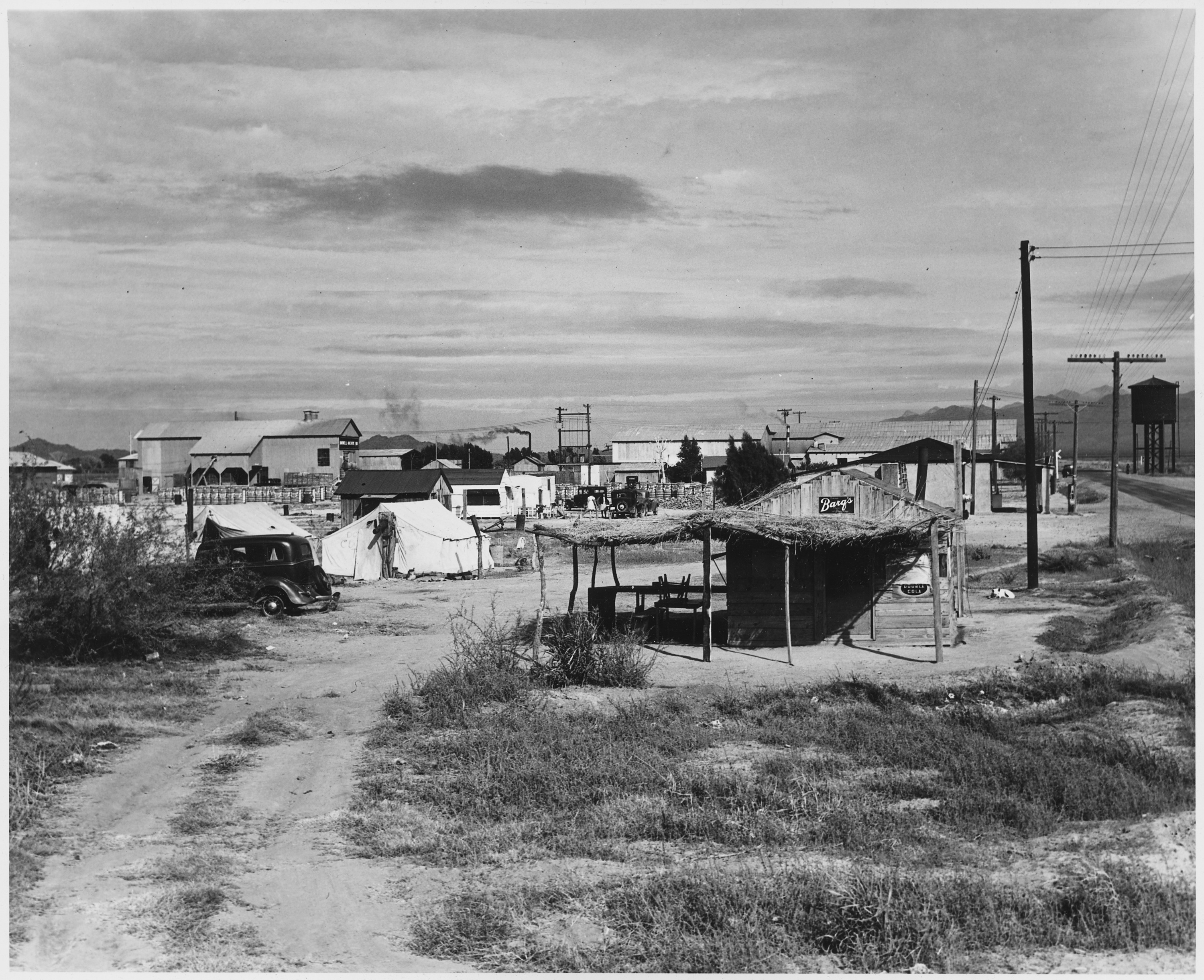 Scope and content: Full caption reads as follows: Buckeye, Maricopa County, Arizona. Private auto camp for cotton pickers, camp manager's store in foreground, gin in background.